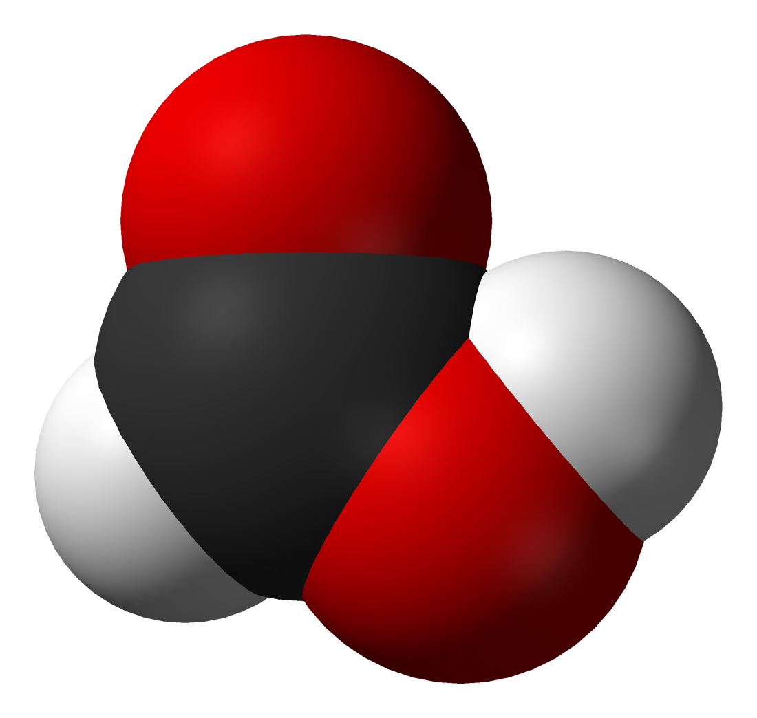 Space-filling model of the formic acid molecule, based on microwave (rotational) spectroscopic data from George Hsing Kwei and R. F. Curl, Jr. (1960). "Microwave Spectrum of O18 Formic Acid and Structure of Formic Acid". The Journal of Chemical Physics 32: 1592-1594.